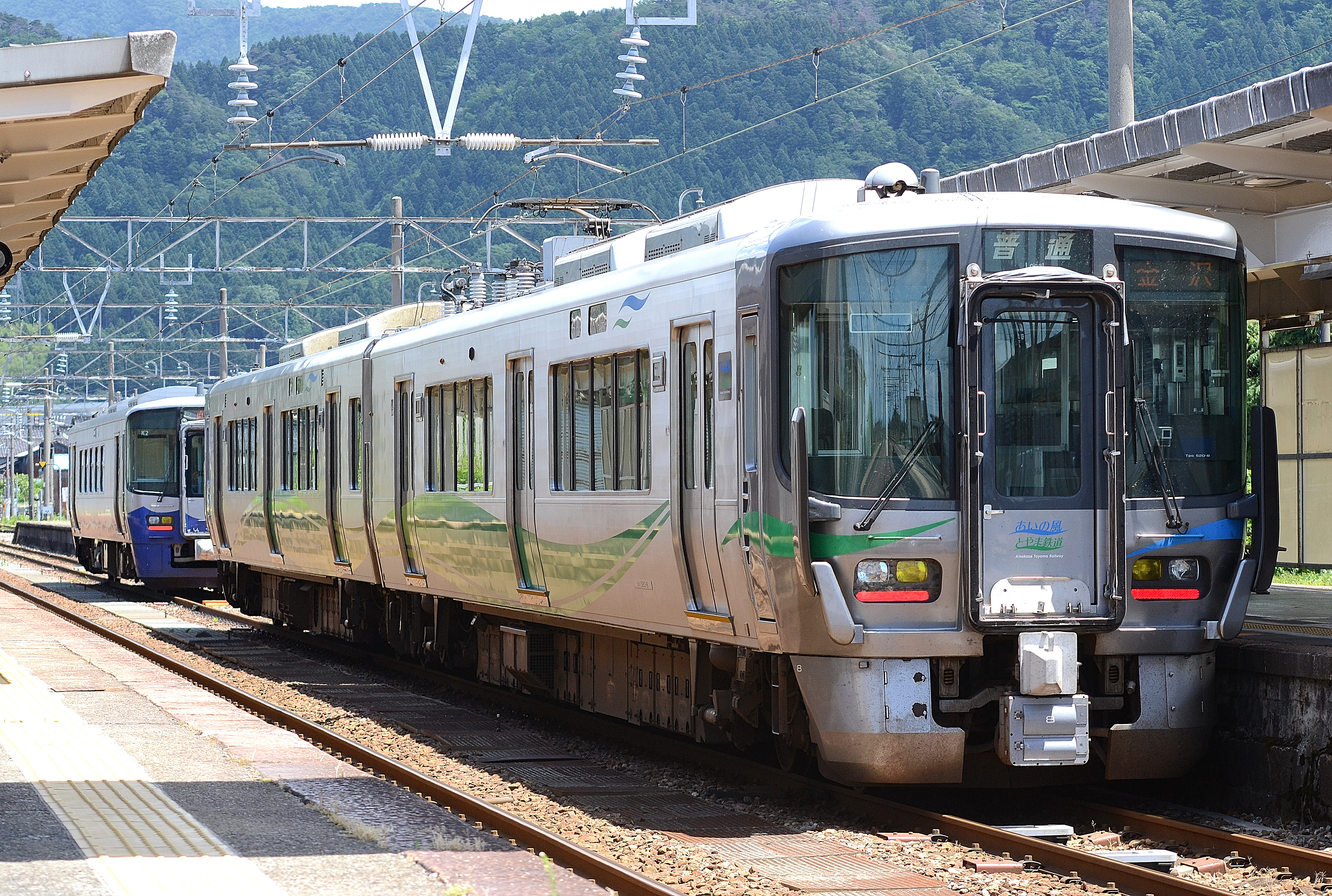 An Ainokaze Toyama Railway 521 series EMU and an Echigo Tokimeki Railway ET122 series DMU car share the platform at Tomari Station